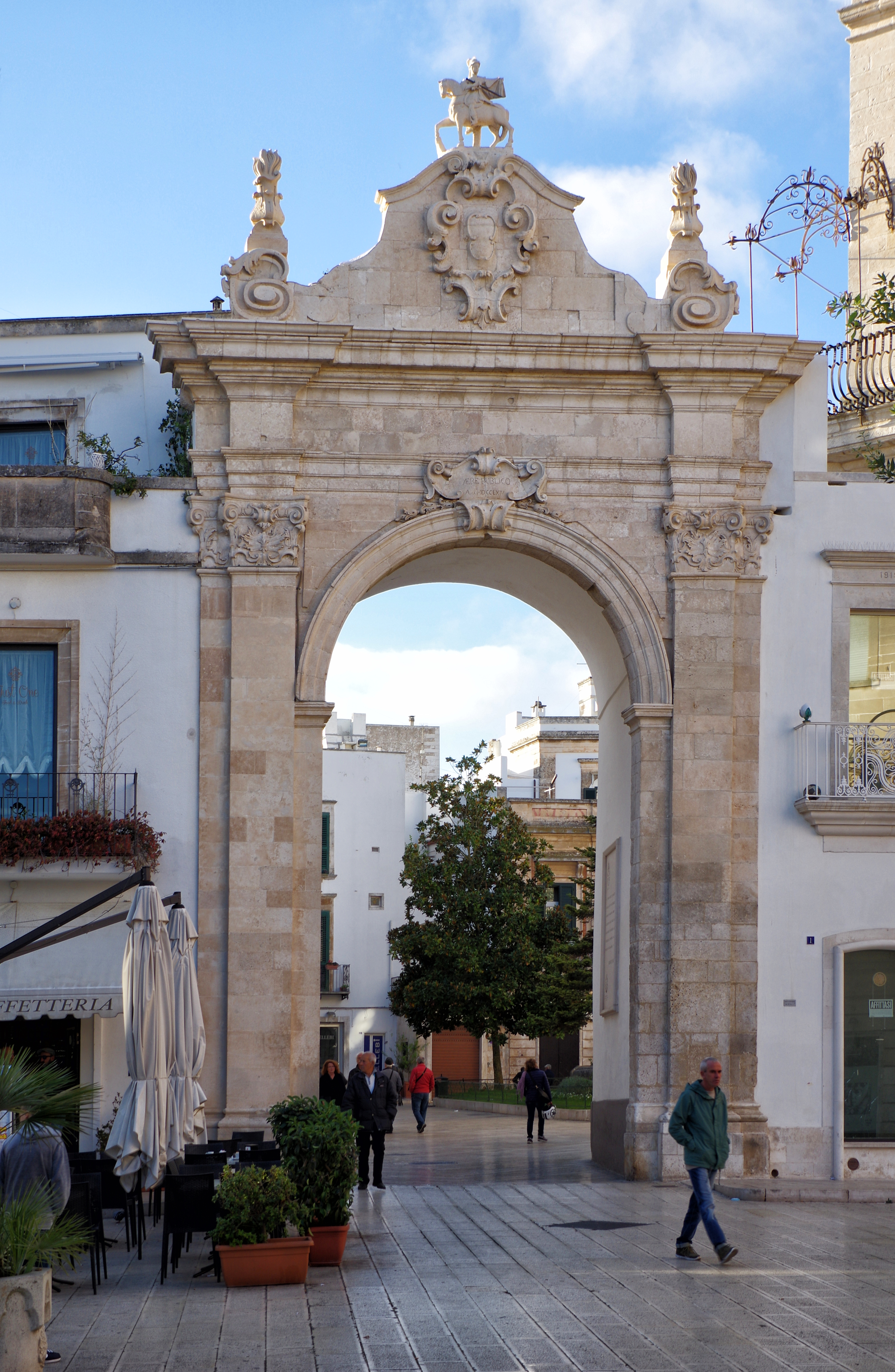 Italy, Martina Franca, Porta di Santa Stefano